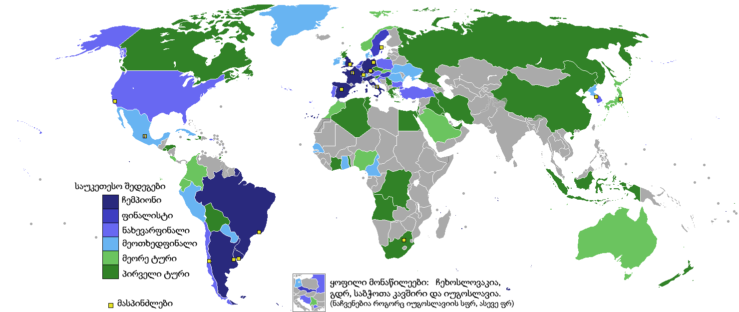 FIFA World Cup showing countries best results (colors as shown) and host countries (yellow dots), as listed on National team appearances in the FIFA World Cup. The inset map at the lower left shows former countries (USSR, Yugoslavia, Czechoslovakia and East Germany). Note that a second round was not held before 1982, and quarterfinals were not held in 1930, 1950 and 1982. (Georgian)